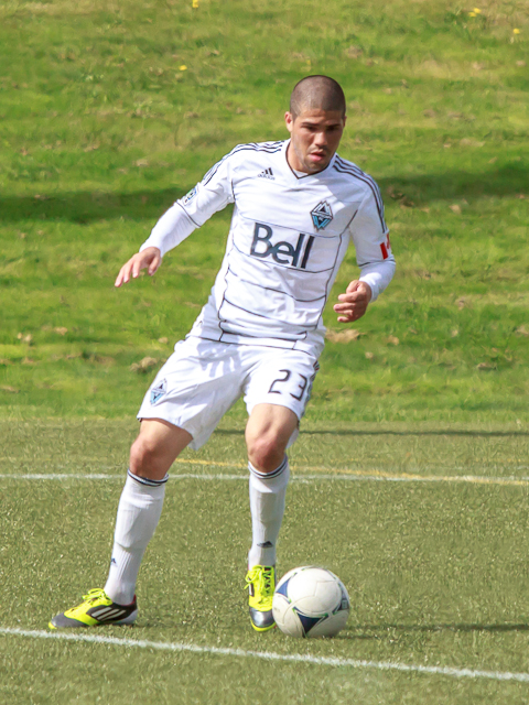 Tiago Ulisses, Vancouver Whitecaps FC Reserves v San Jose Earthquakes Reserves, 10 September 2012